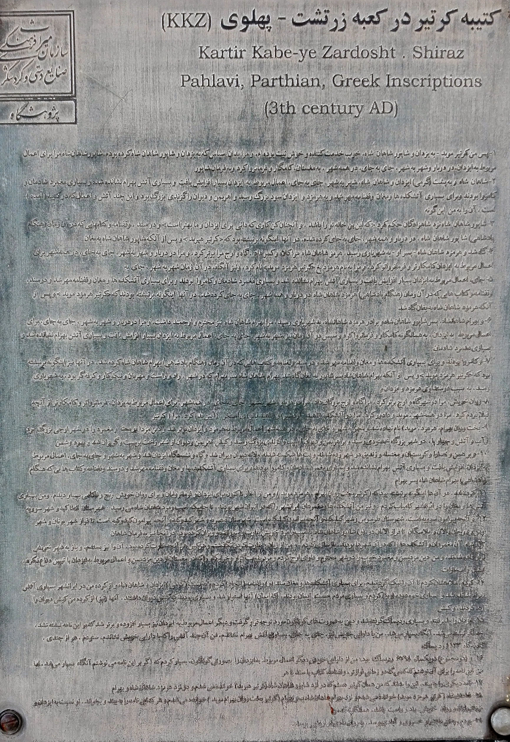 taken in inscription garden, Tehran